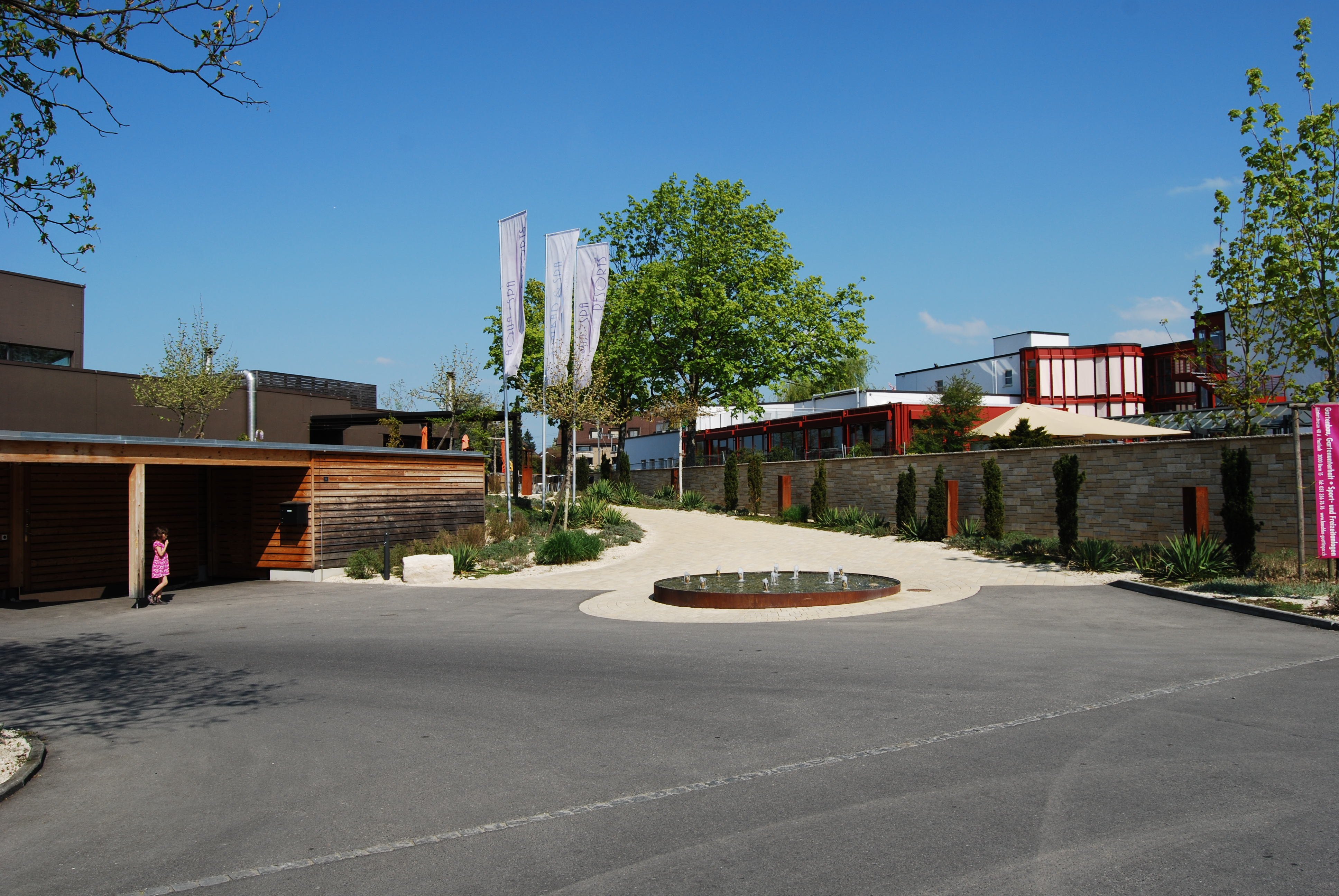 Salt Bath Urtenen-Schönbühl, canton of Bern, Switzerland